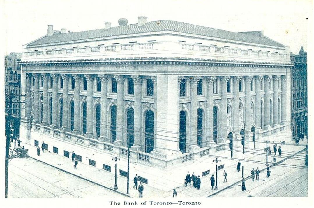 Postcard of the headquarters of the Bank of Toronto, on the southwest corner of Bay and King Streets, Toronto, Canada.